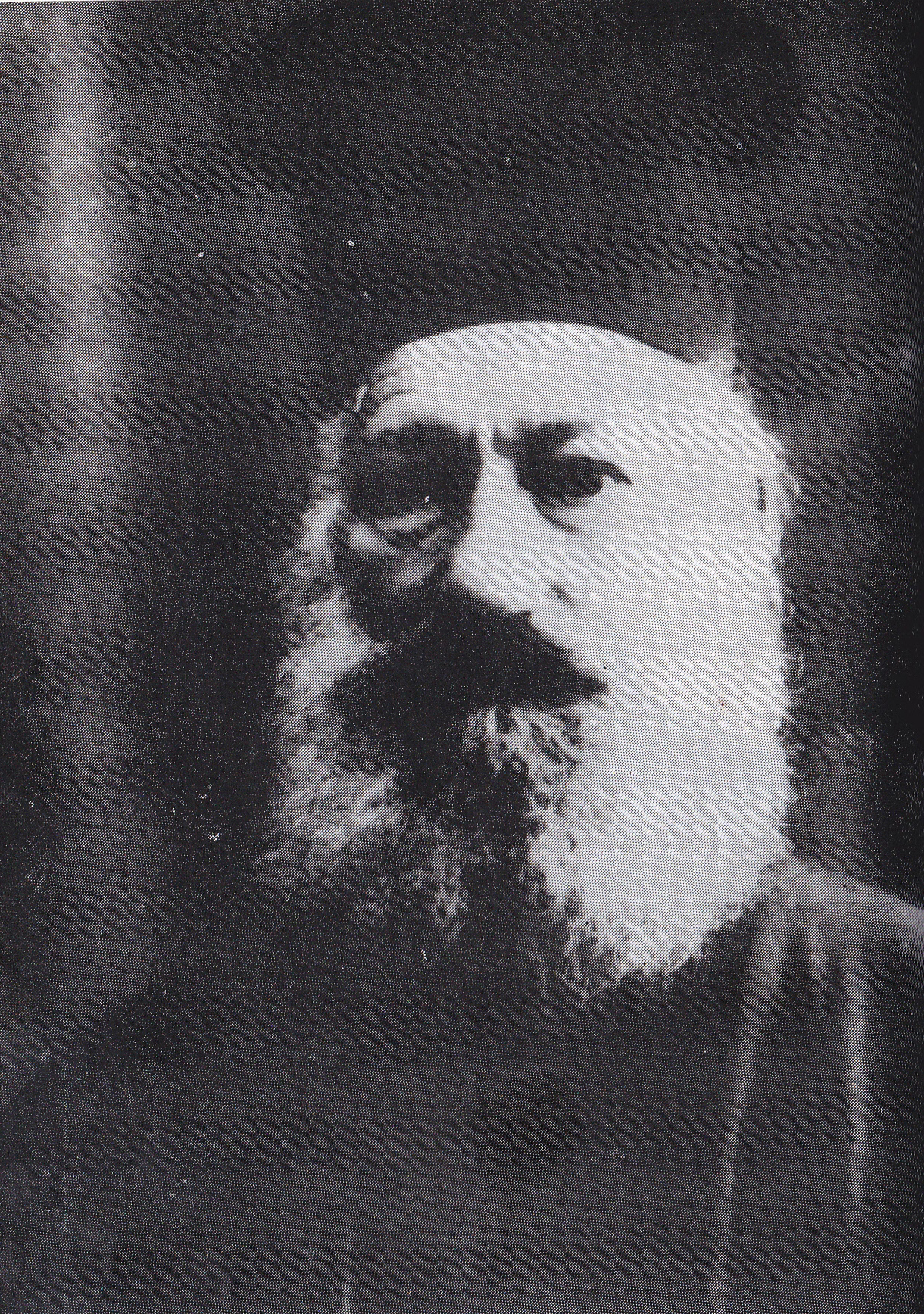 bulgarian revolutionary